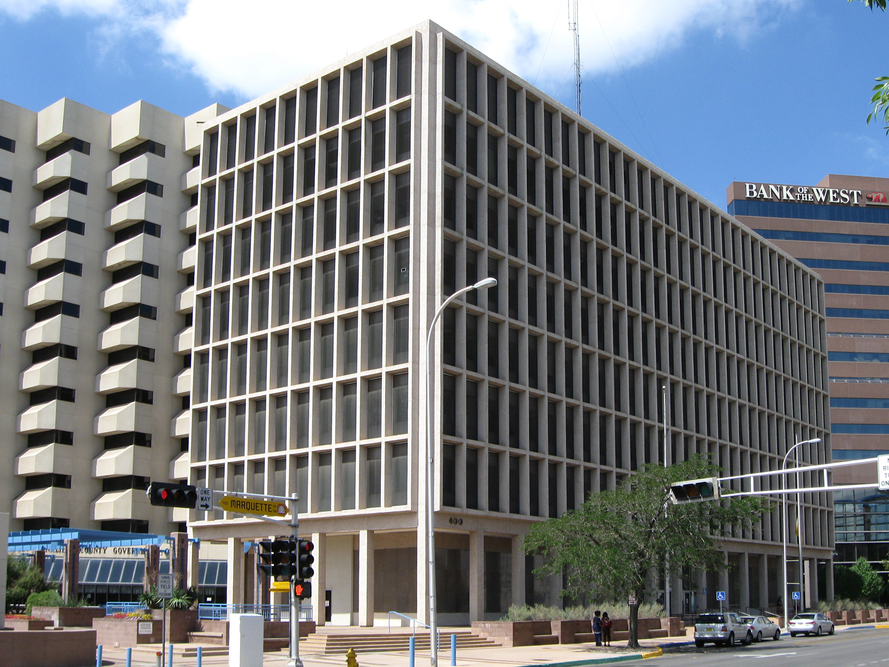 Albuquerque (New Mexico) City Hall, located at 400 Marquette Avenue NW.